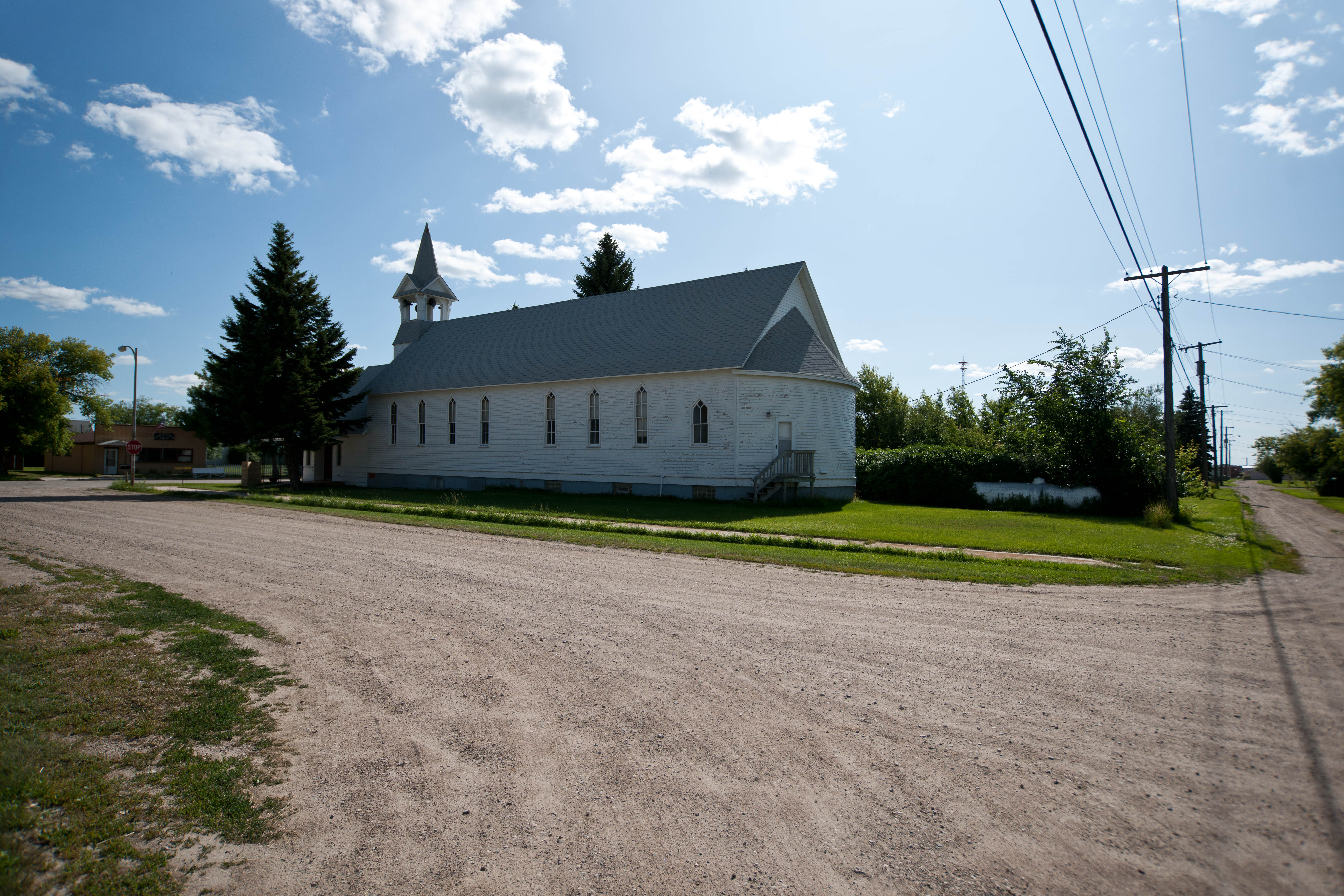 From , St. Paul's Lutheran Church